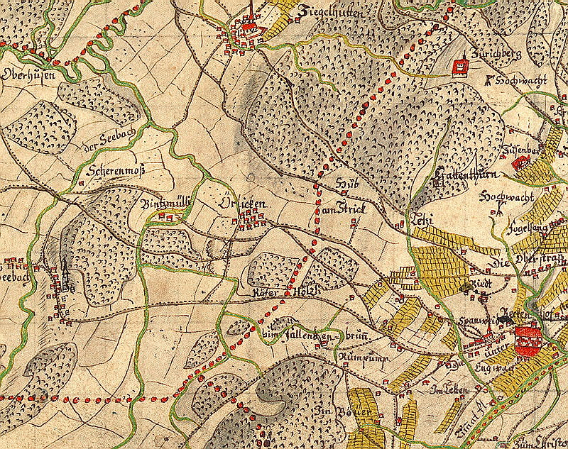 Zürich - Oerlikon on «Gygerkarte» (Map of Canton Zürich) by Hans Conrad Gyger, 1667.